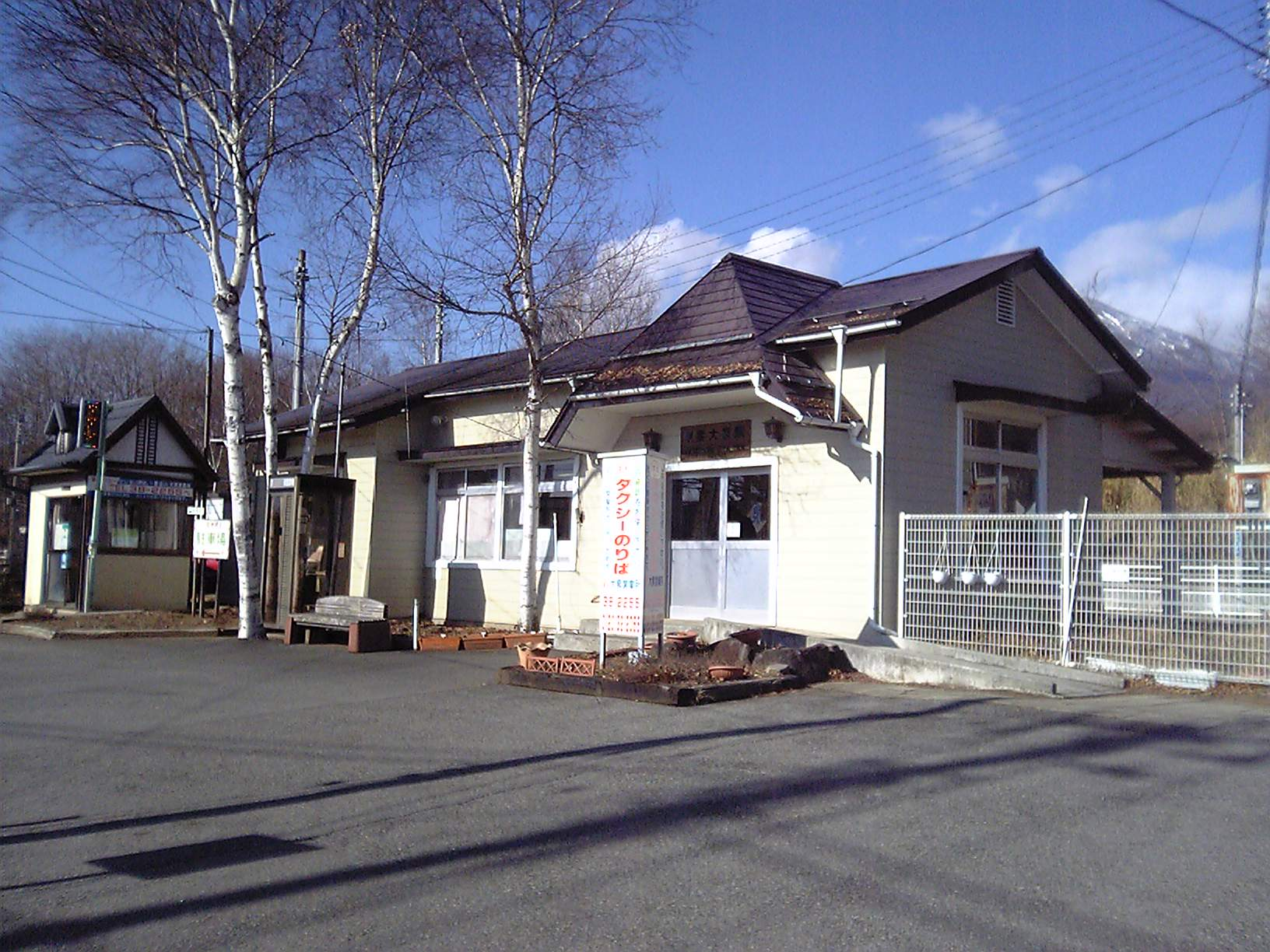 Kai-Oizumi Station